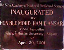 It is a foundation stone of Ibn Sina Academy of Medieval Medicine & Sciences, Tijara House, Dodhpur, Aligarh, India